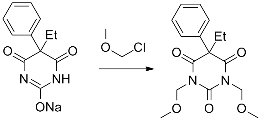 I am pleased to present to you this work, taken from Dan Lednicer's 2nd book also co-authored by Lester Mitscher.